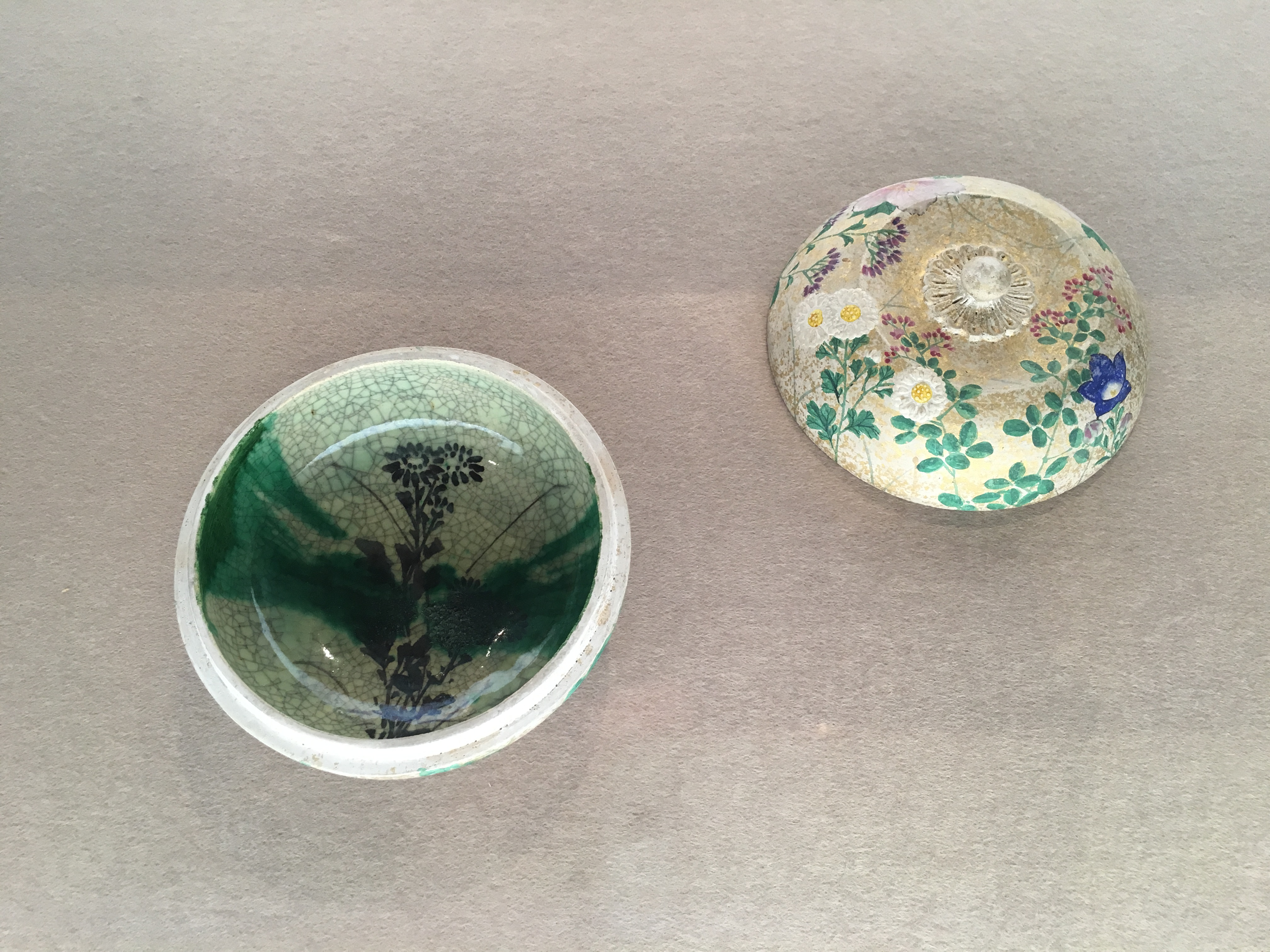 Covered bowl, flower and glass design Toyoraku, Toyosuke III Edo period, 18th-19th century Private collection